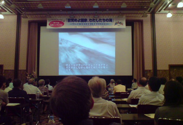 The 14th [woman's forum] fish (WFF) nationwide symposium in Tokyo.